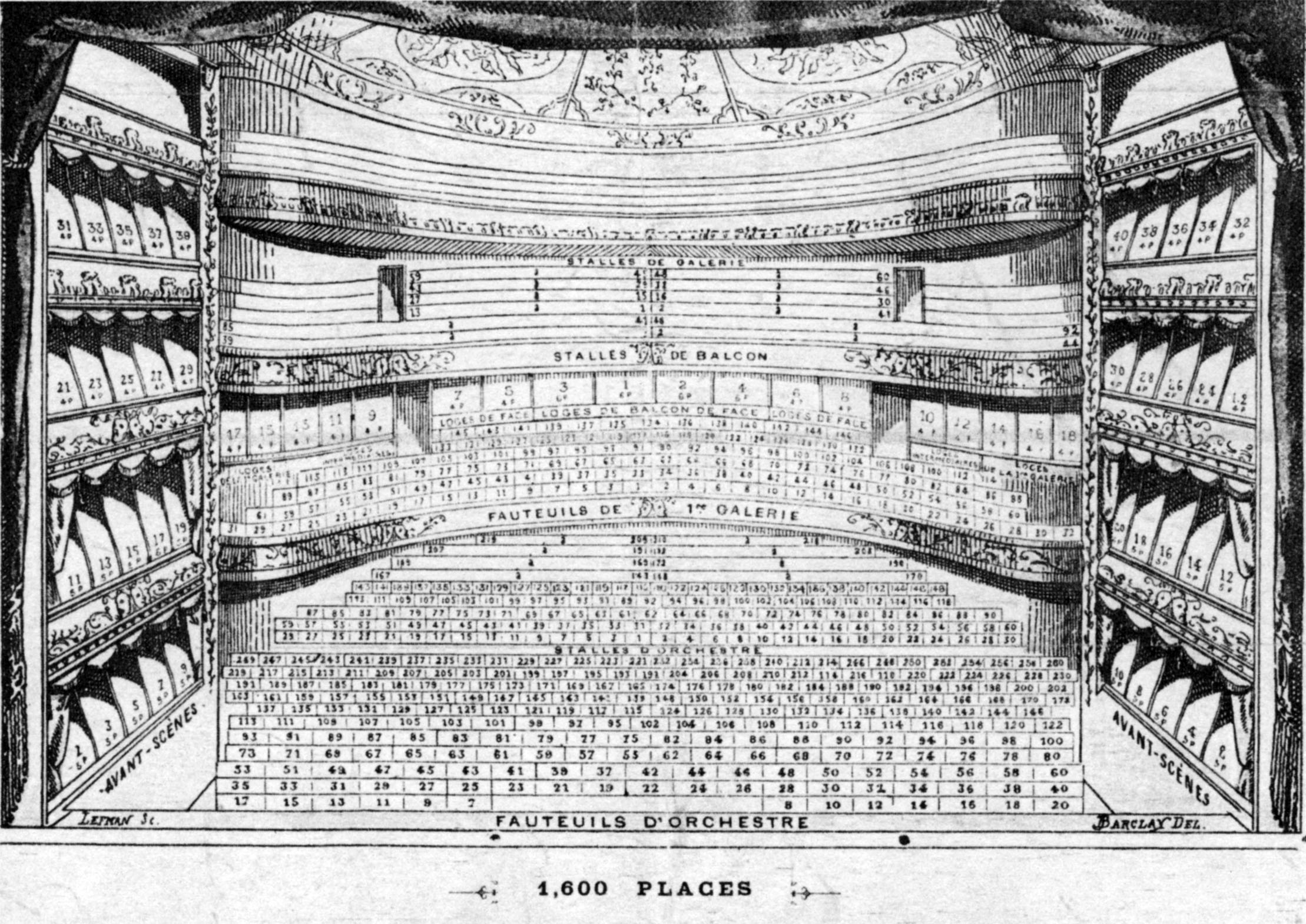 An 1875 seating chart for the Théâtre des Folies-Dramatiques on the rue de Bondy